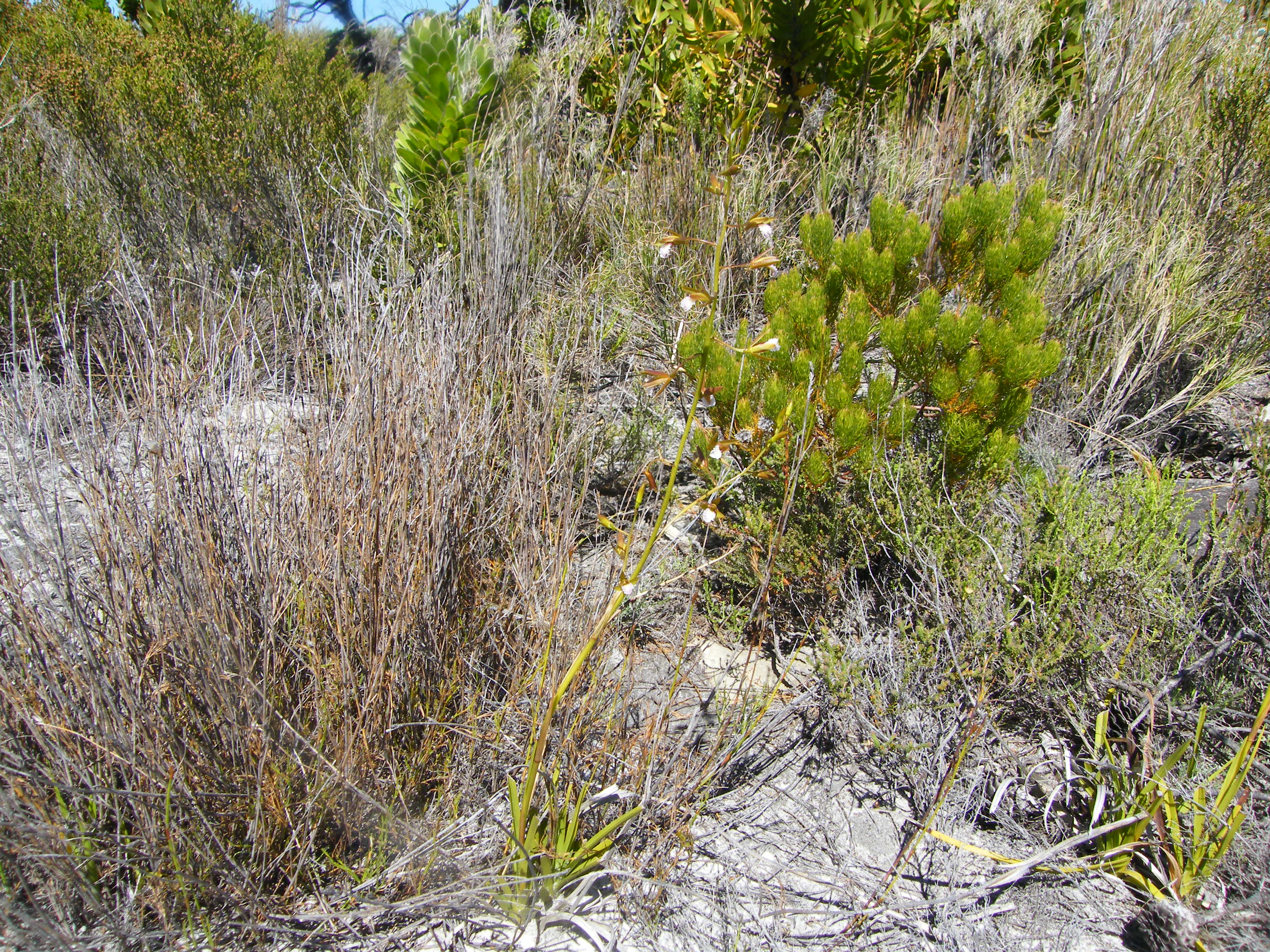 Acrolophia lamellata